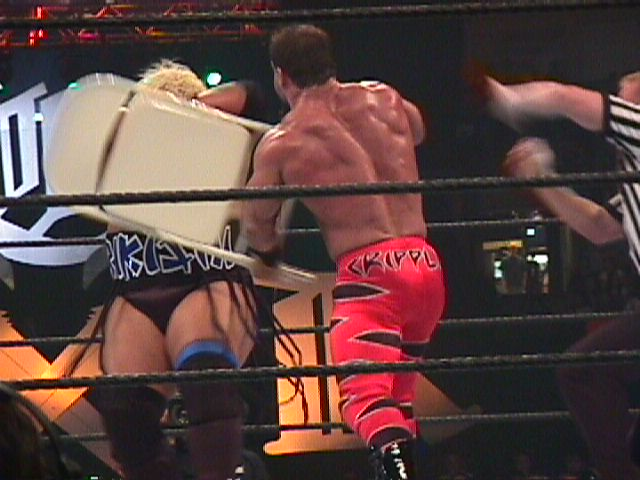 Rikishi vs. Chris Benoit at the WWF King of the Ring at the Fleet Center in Boston, MA in 2000 - WWE. Mr. Benoit was disqualified after the ref acually saw him hit Rikishi with the steel chair (pictured).